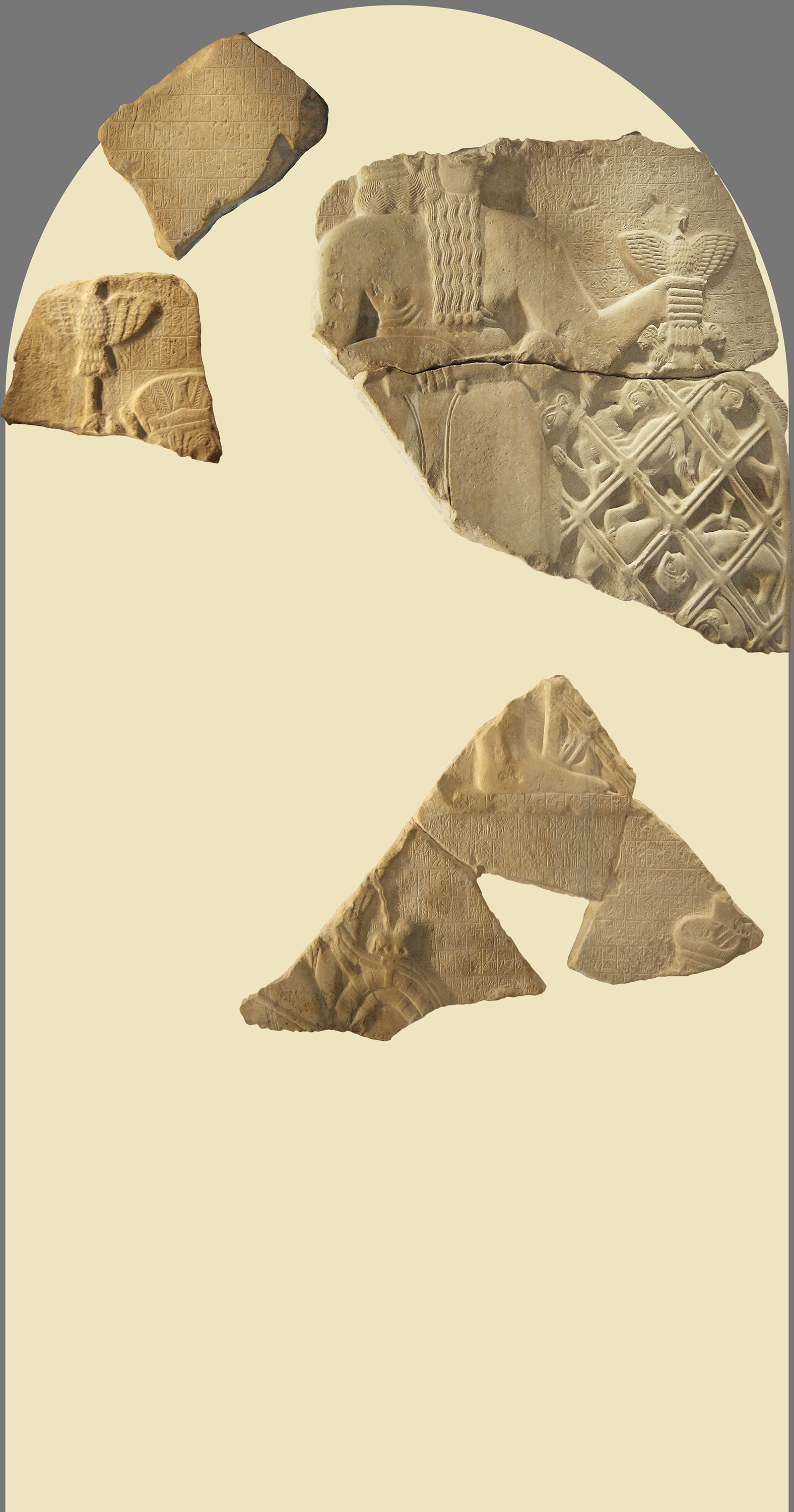 Reconstitution of the victory stele of the king Eannatum of Lagash over Umma, called « Stele of Vultures ». Mythological side. Limestone, circa 2450 BC, Sumerian archaic dynasties. Found in 1881 in Girsu (now Tello, Iraq), Mesopotamia, by Édouard de Sarzec.